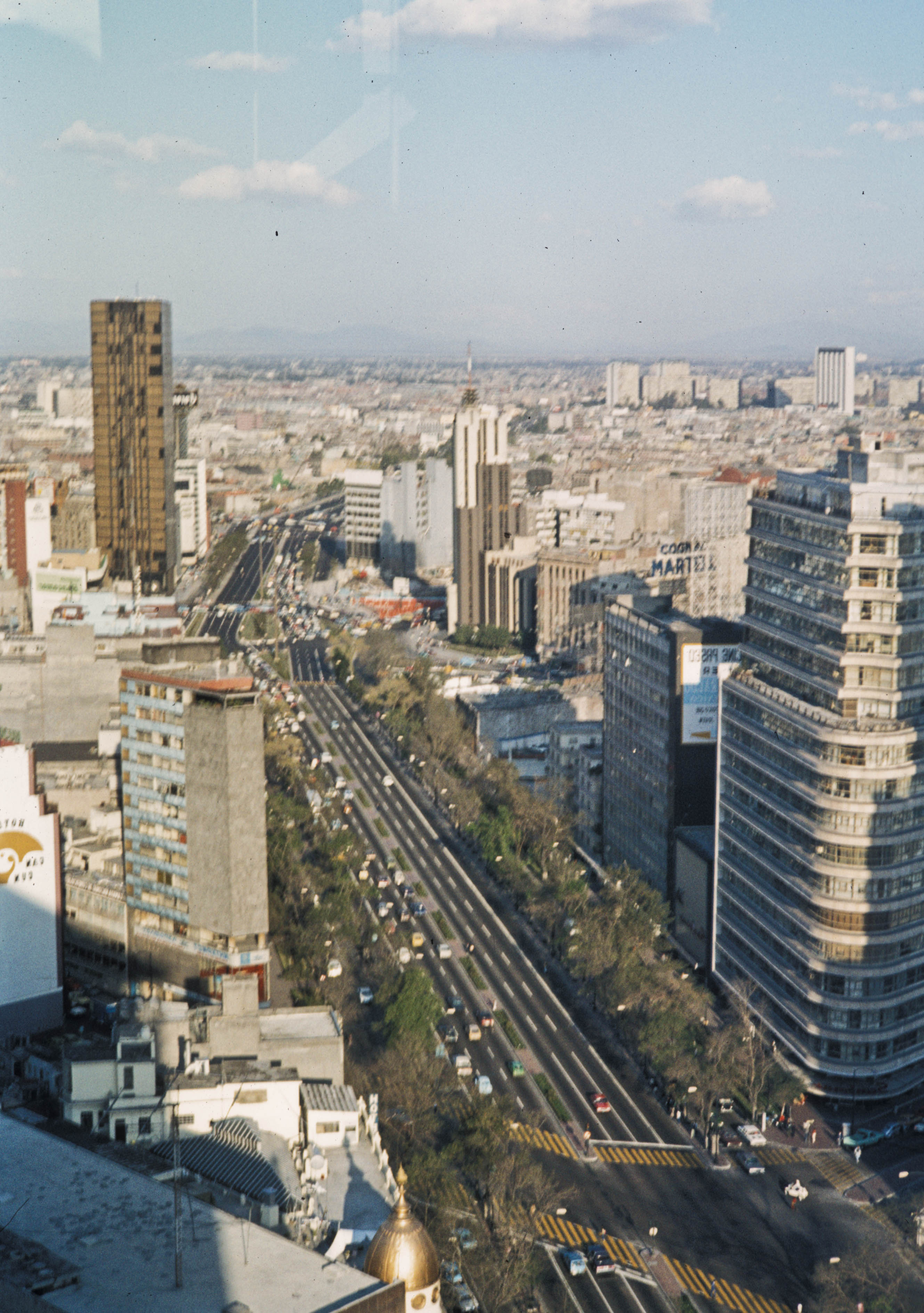 Image from Mexico in 1980; Section of Paseo de la Reforma in Mexico City